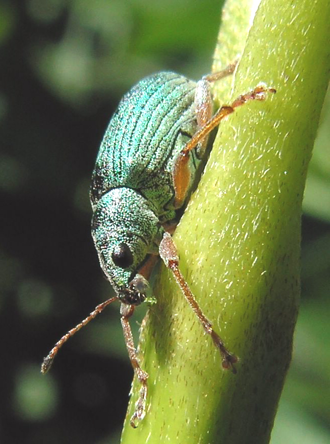 A weevil/snout beetle, this specimen a Phyllobius Polydrusus formosus was found in The Hague, The Netherlands. Photo by Jens Buurgaard Nielsen